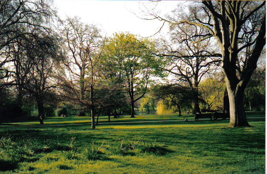 London's St. James' Park on a winter day. (C) Gerry Lynch, 2004.